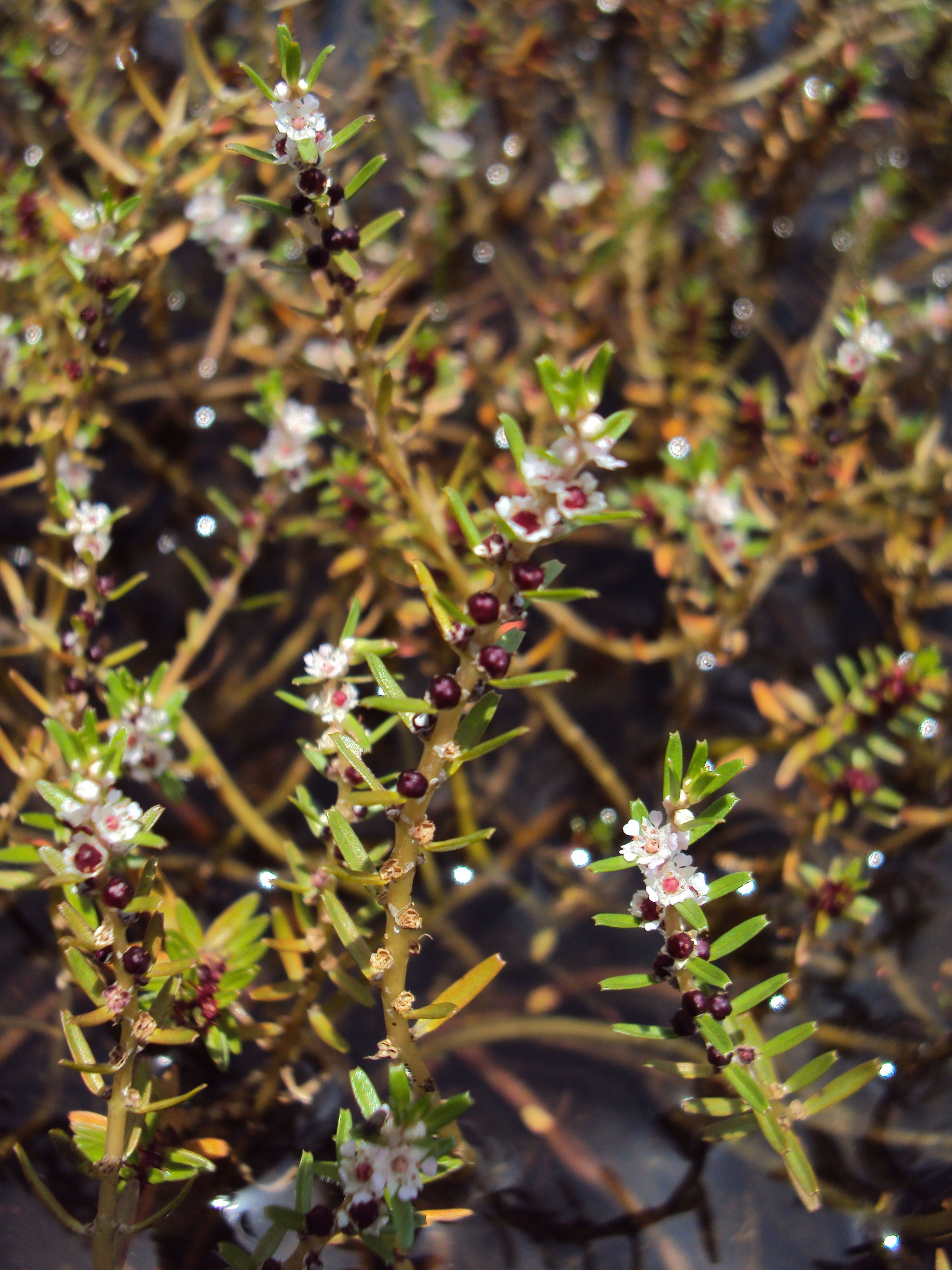 Rotala malabarica